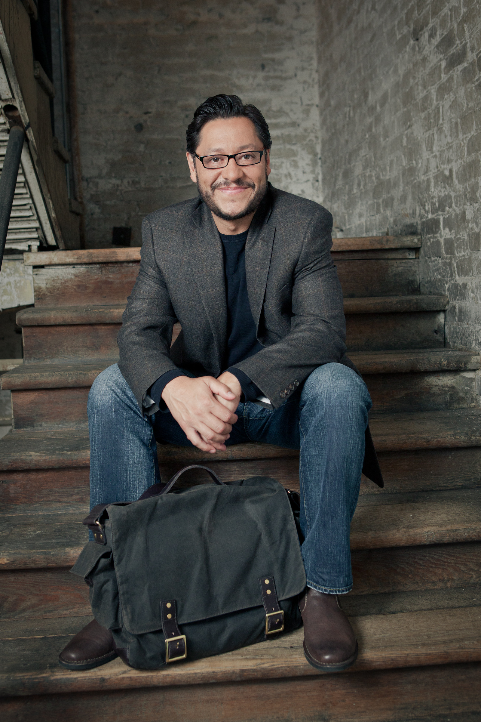 Photo of author, Rob Cabitto